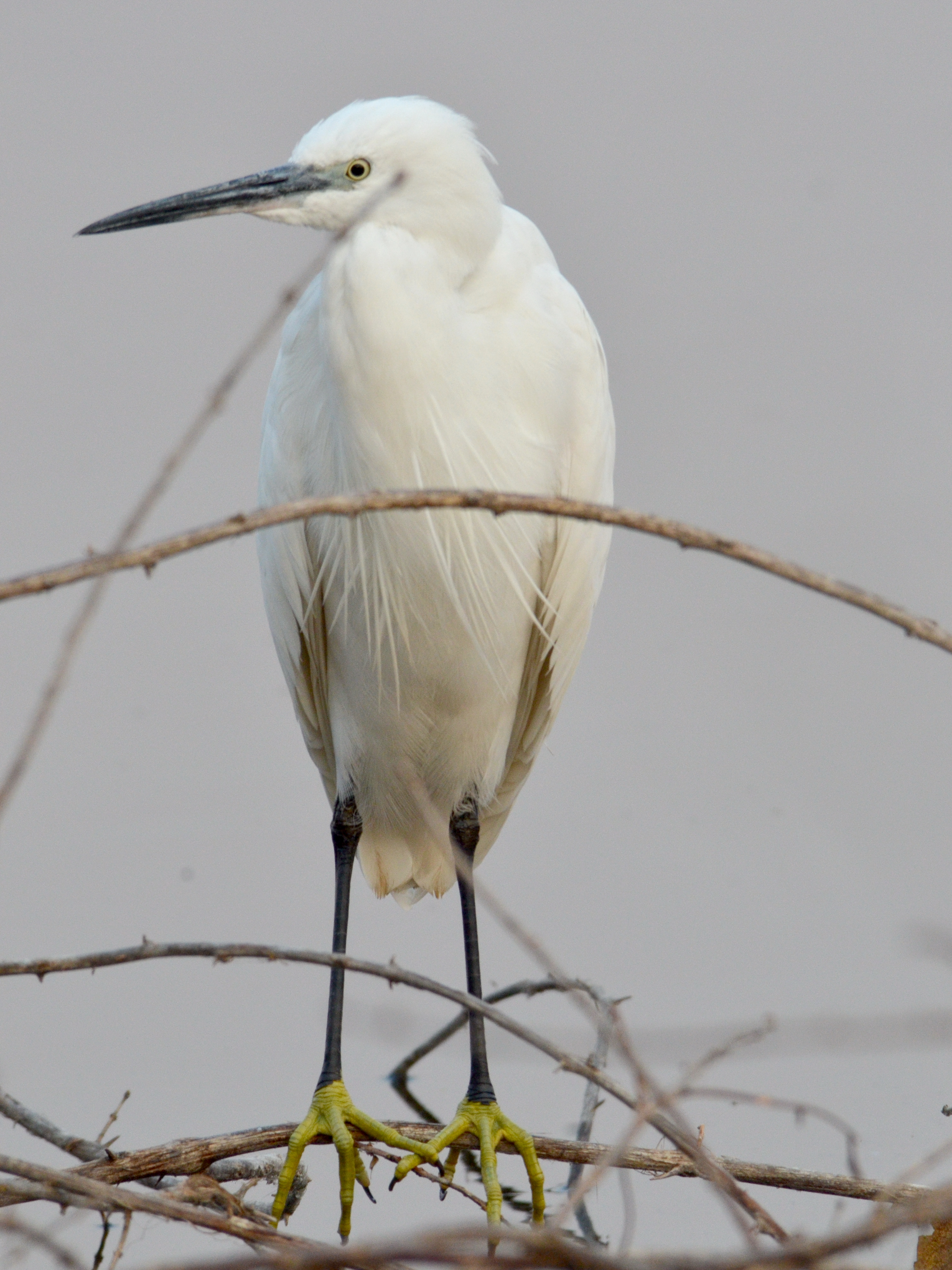 Little Egret near Kafue, Zambia.